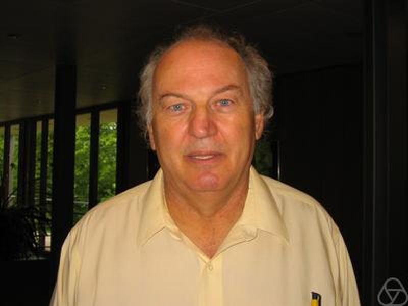 Lucien Szpiro, Oberwolfach 2005